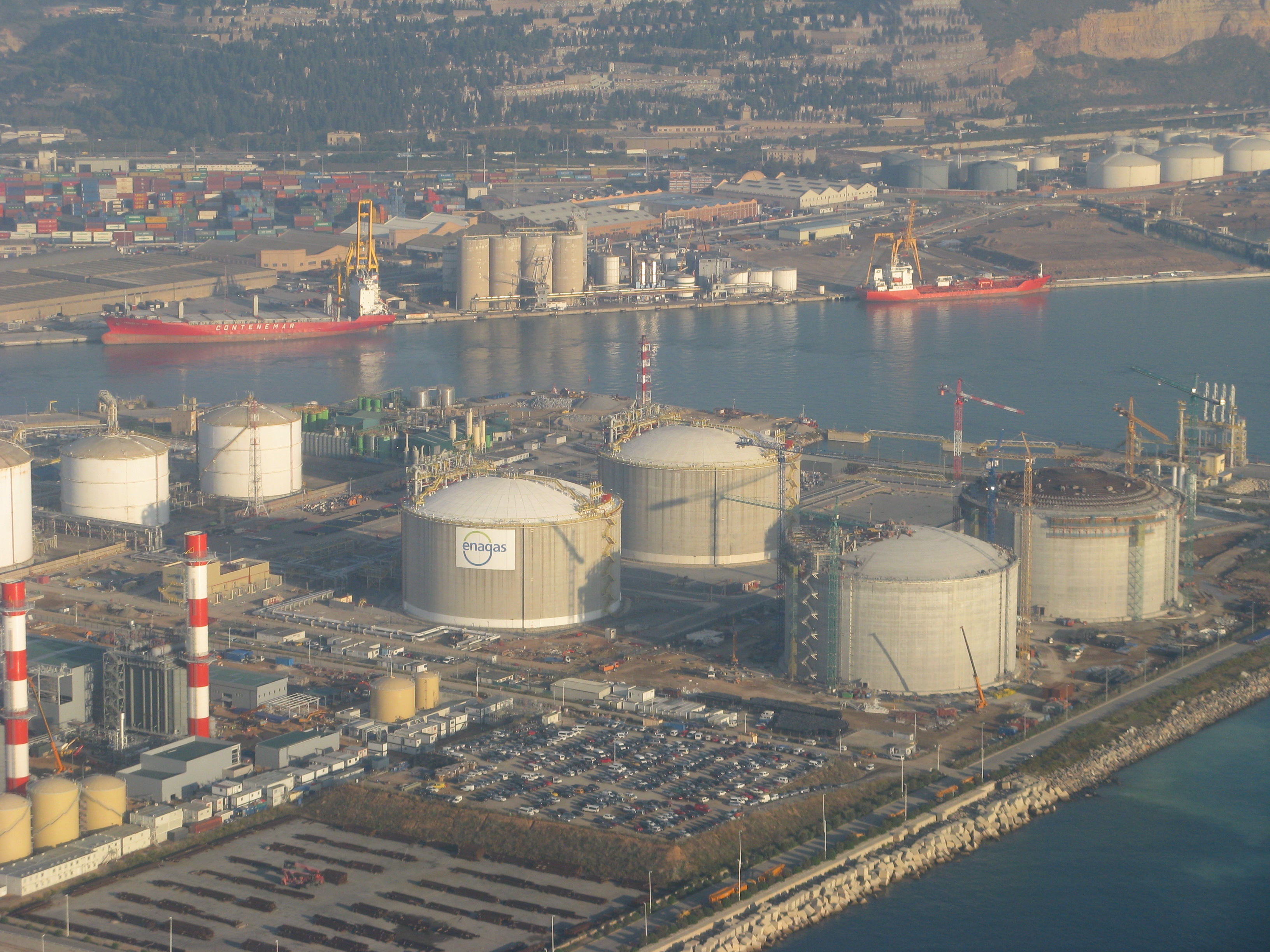 Barcelona, port from aeroplane. Enagas's LNG tanks.